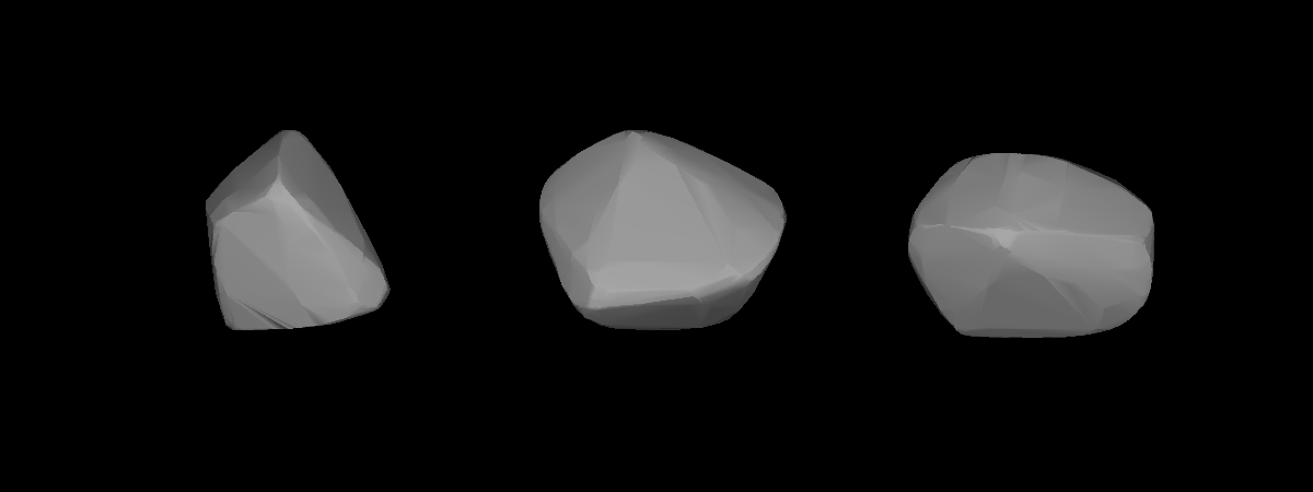 A three-dimensional model of 544 Jetta that was computed using light curve inversion techniques.